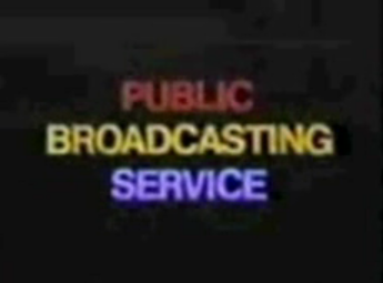 The original Public Broadcasting Service logo, which contained only the three words in the network's name, each one having an individual color.